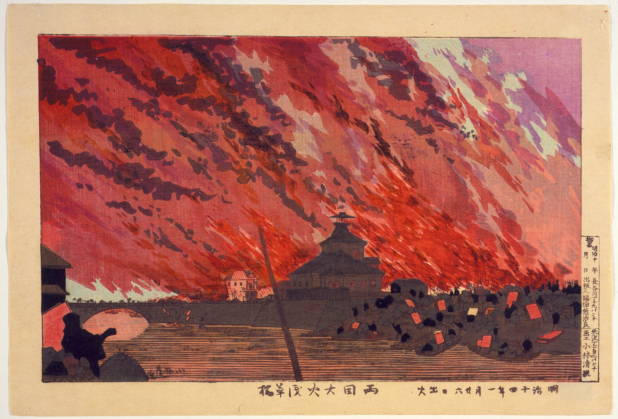 Japan, 1881 Prints; woodcuts Color woodblock print Gift of Carl Holmes (M.71.100.50) Japanese Art